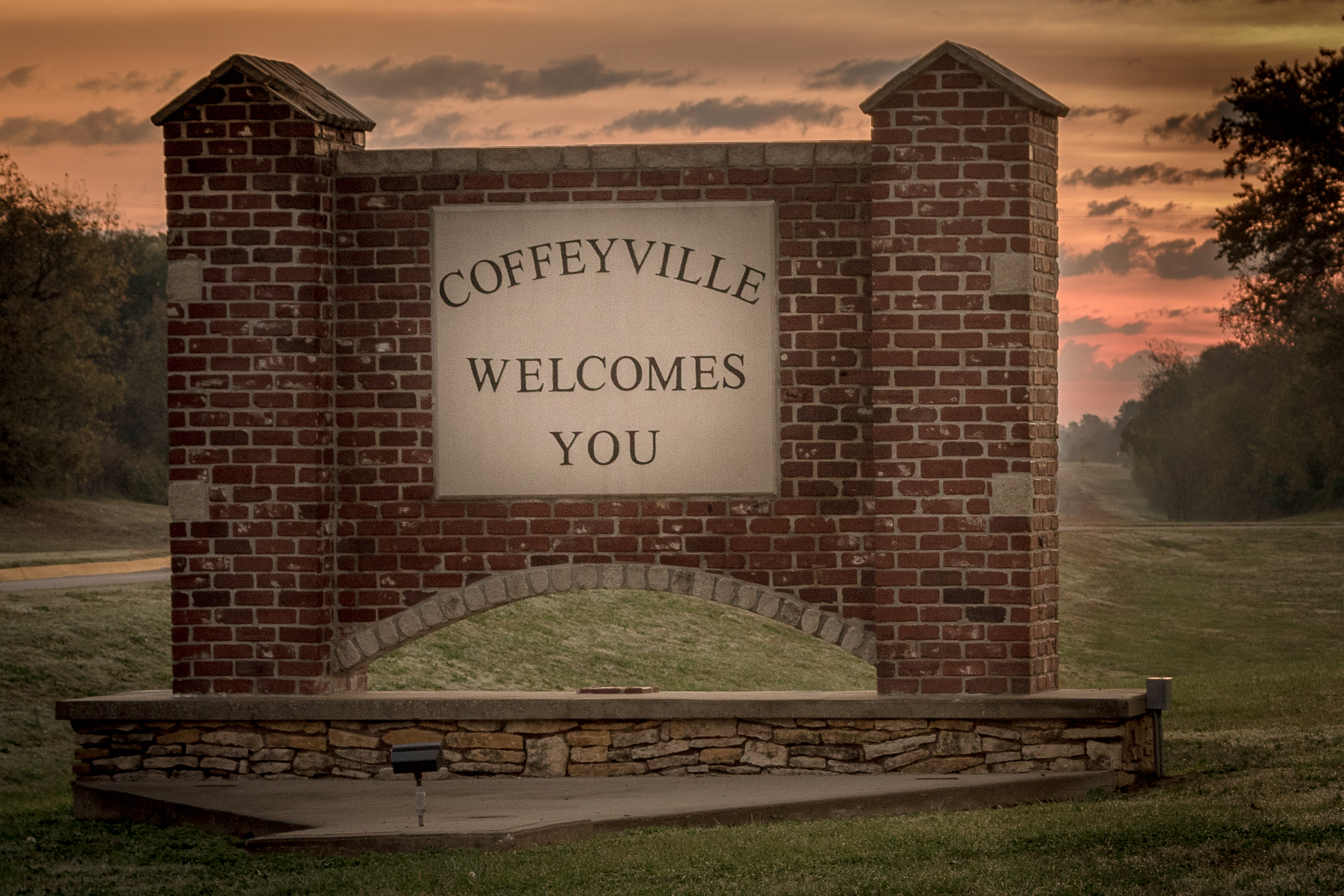 Sunrise City of Coffeyville Welcome Sign